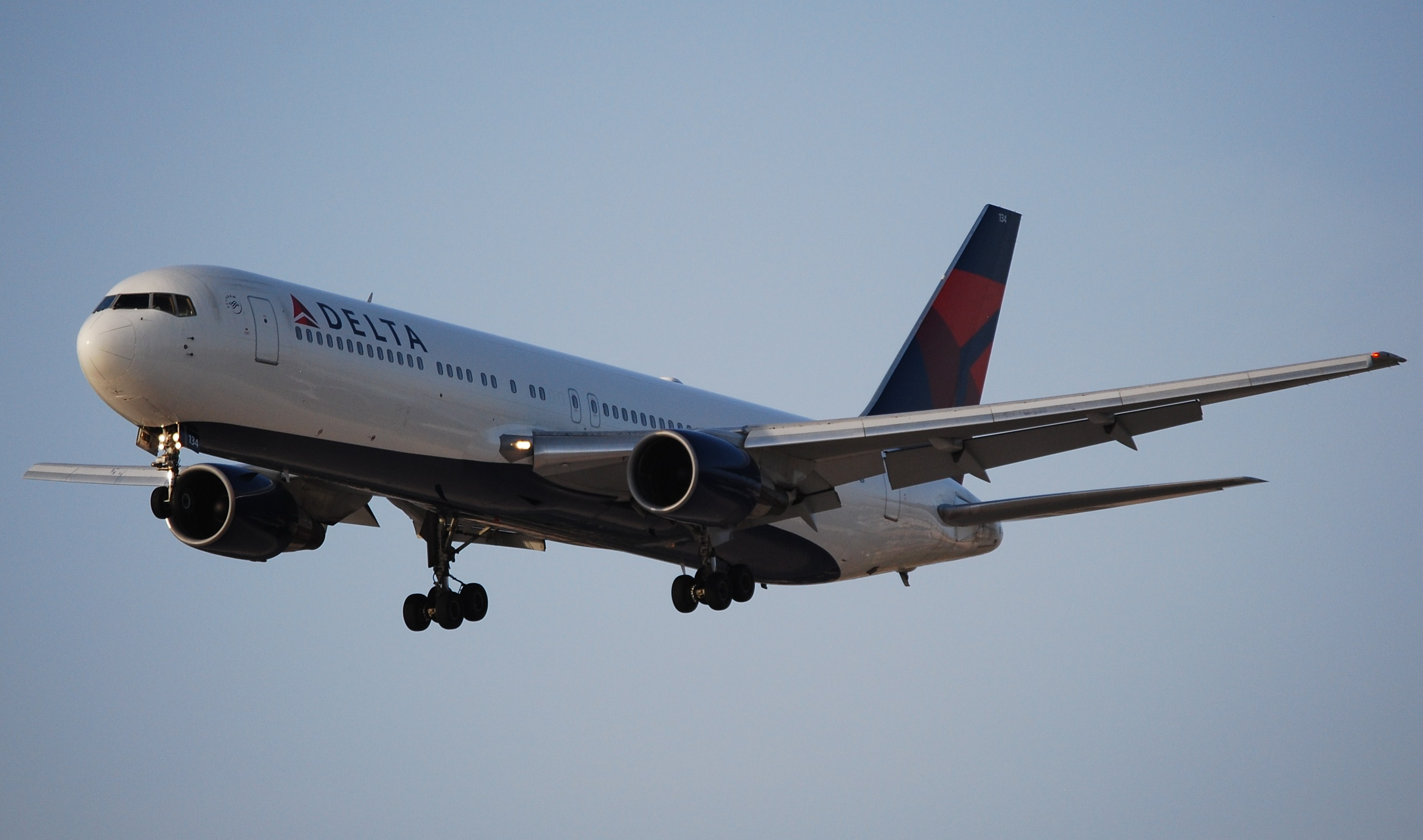 Dedicated to Bryan and Jerri, good luck with Delta and best of luck to us all.